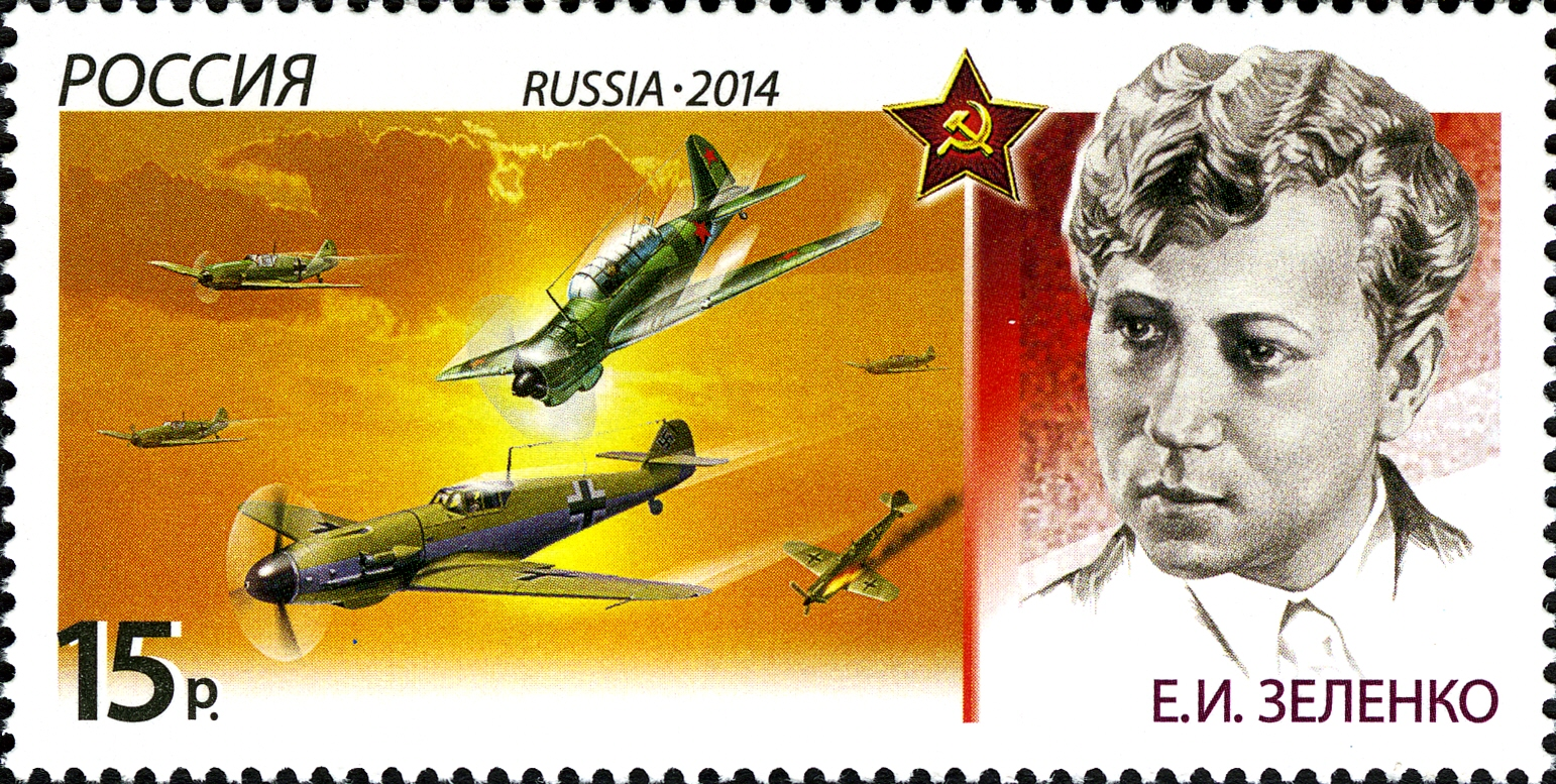 2014 Russian postage stamp featuring Ekaterina Zelenko and her last stand. She was the only woman ever known to have performed an aerial ramming